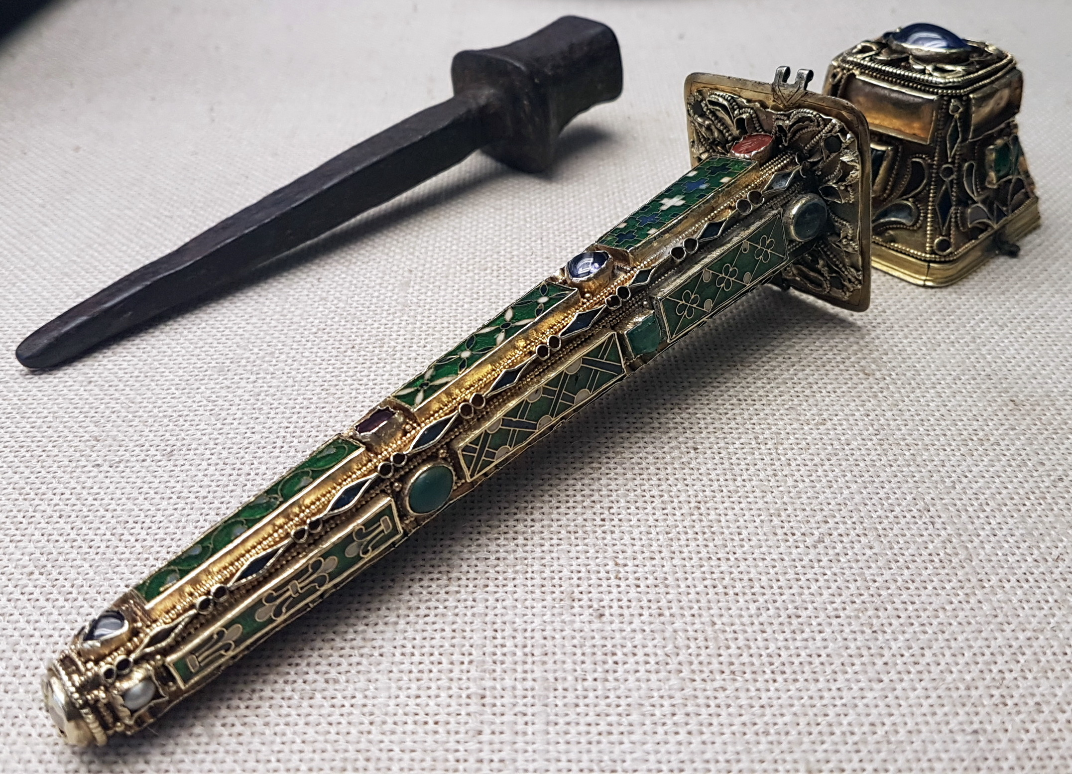 Reliquary of the Holy Nail (Reliquiar des heiligen Nagels) in the treasury of Trier Cathedral, Germany. The reliquary contains a nail of the Holy Cross. For centuries it was kept in the so-called portable altar of Saint Andrew (Andreas-Tragaltar or Egbert-Schrein). Both objects are major works of the 10th-century Egbert workshop in Trier.